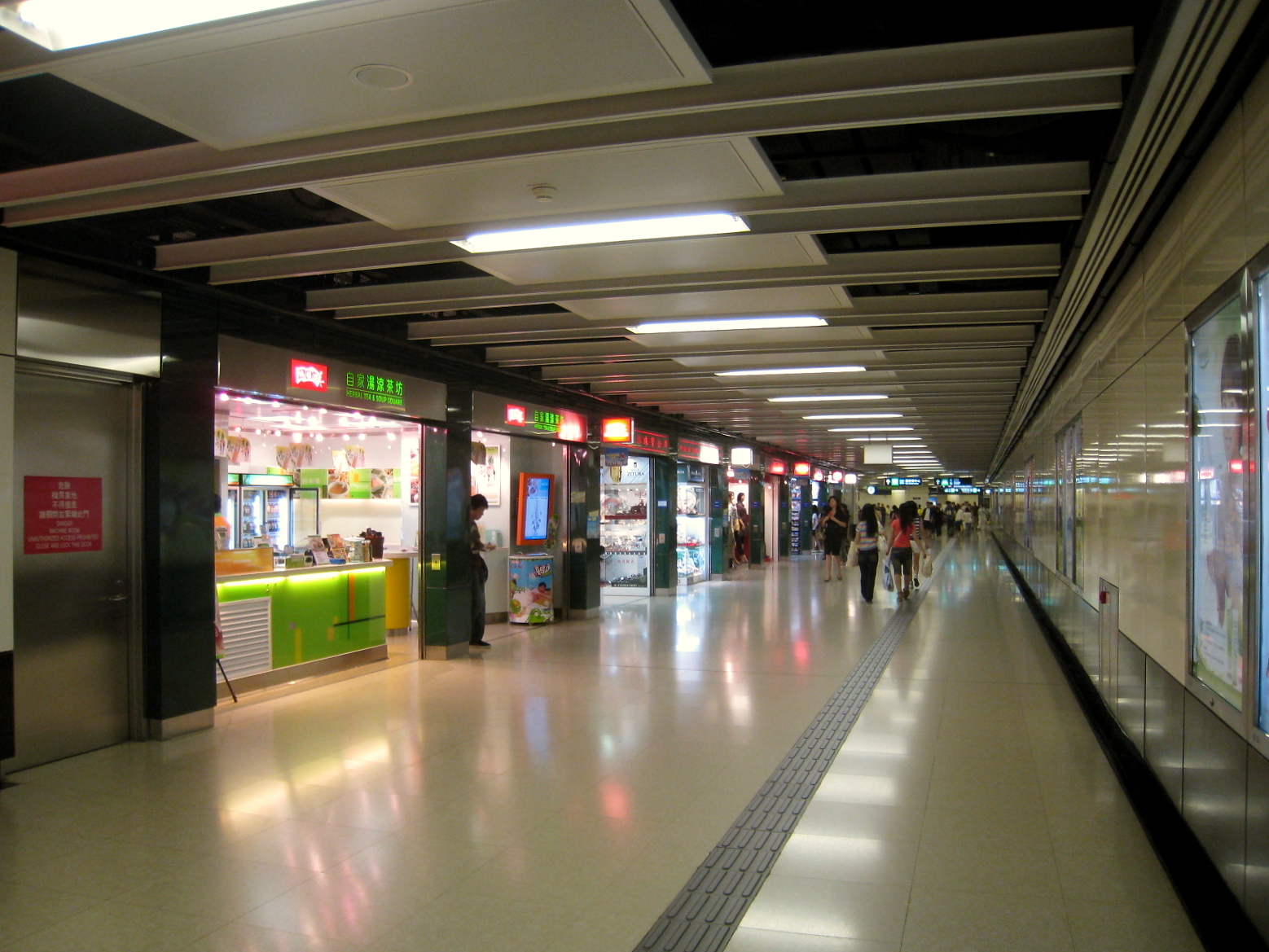 Shops along MTR East Tsim Sha Tsui station subway